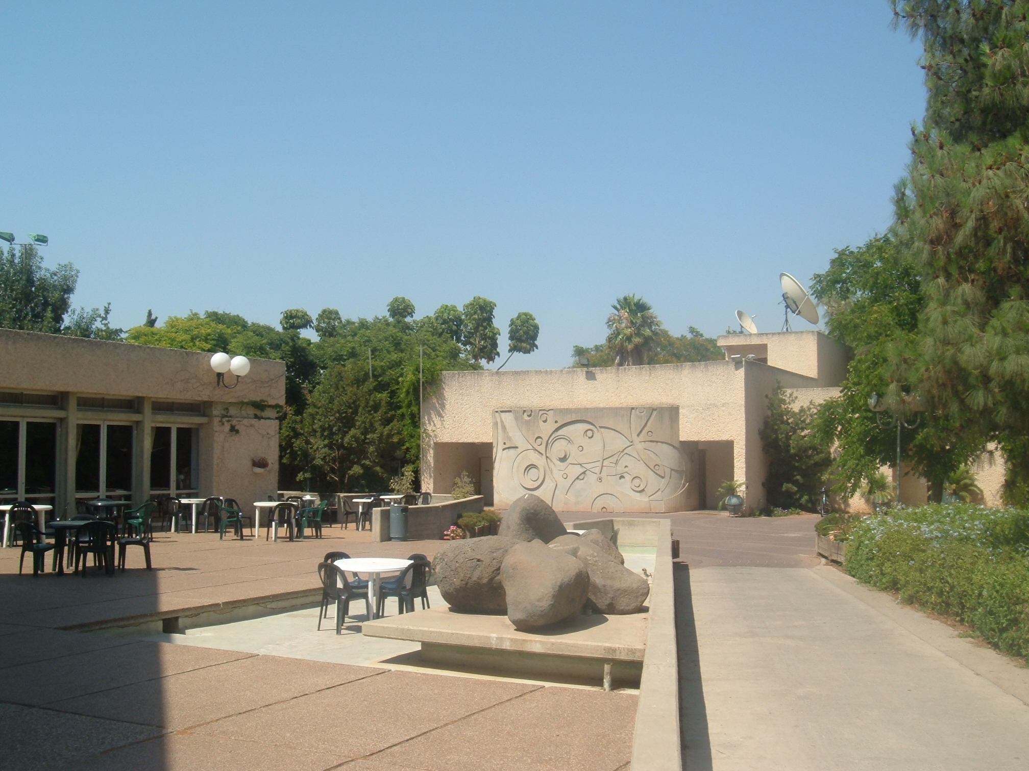 Public Buildings in Kibbutz Gazit, Israel מבני ציבור בקיבוץ גזית, ישראל